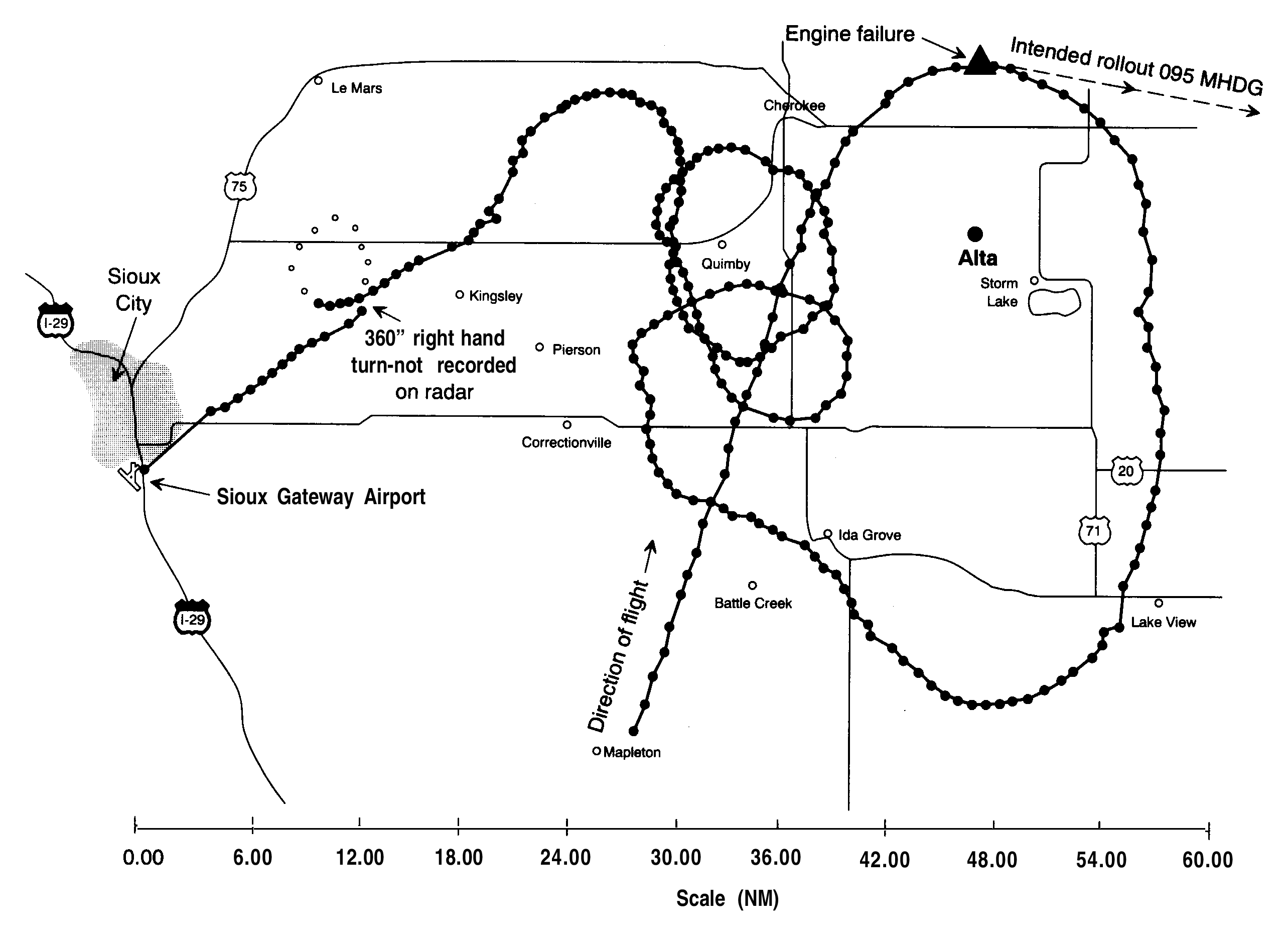 A radar map from the NTSB report into United Airlines Flight 232 crash. This shows all the known radar locations of the DC10 involved before its crash landing at Sioux Gateway Airport.